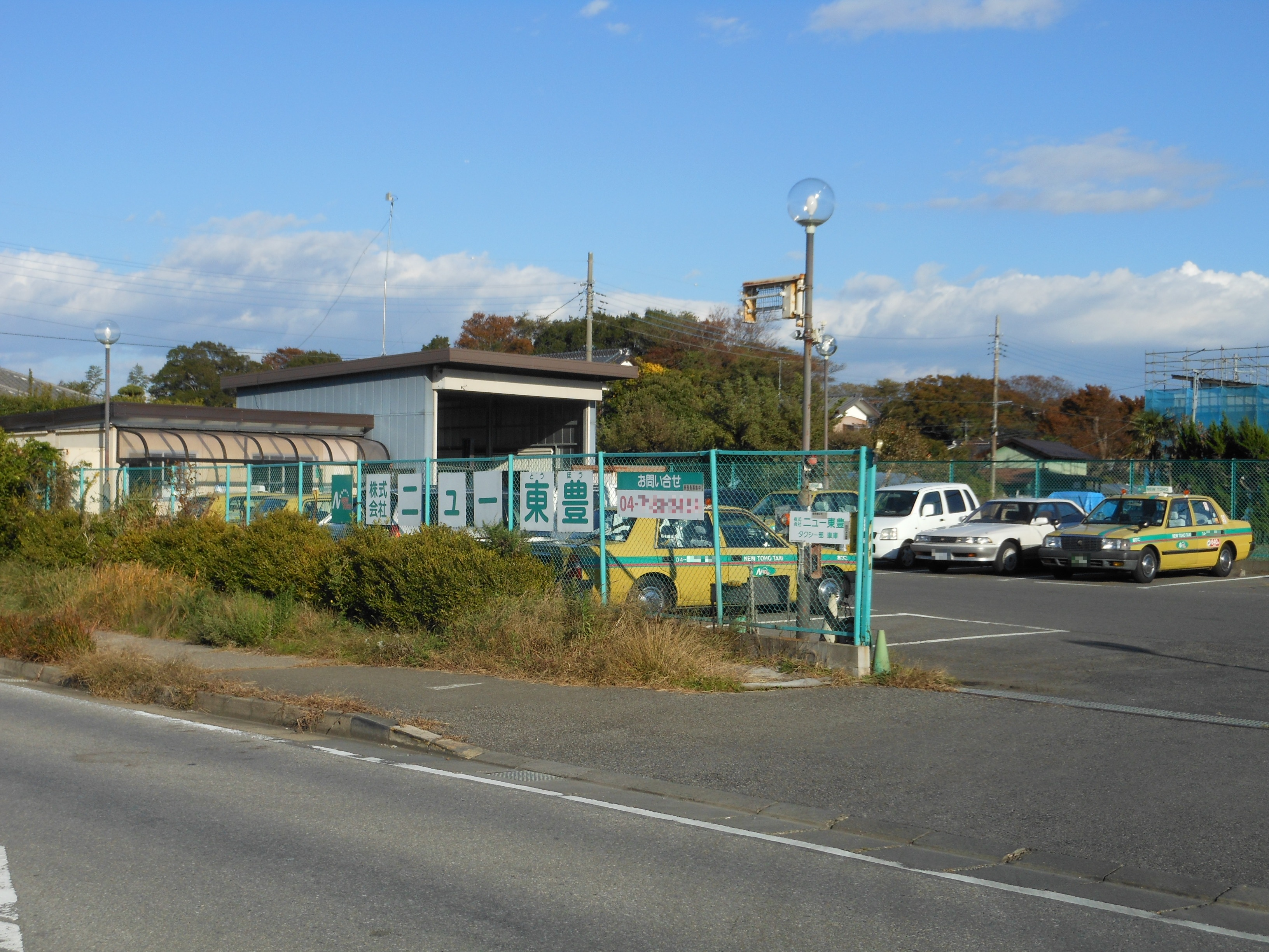 This is the New Toho Taxi Department 1st Parking, which is located in Abiko, Chiba, Japan.